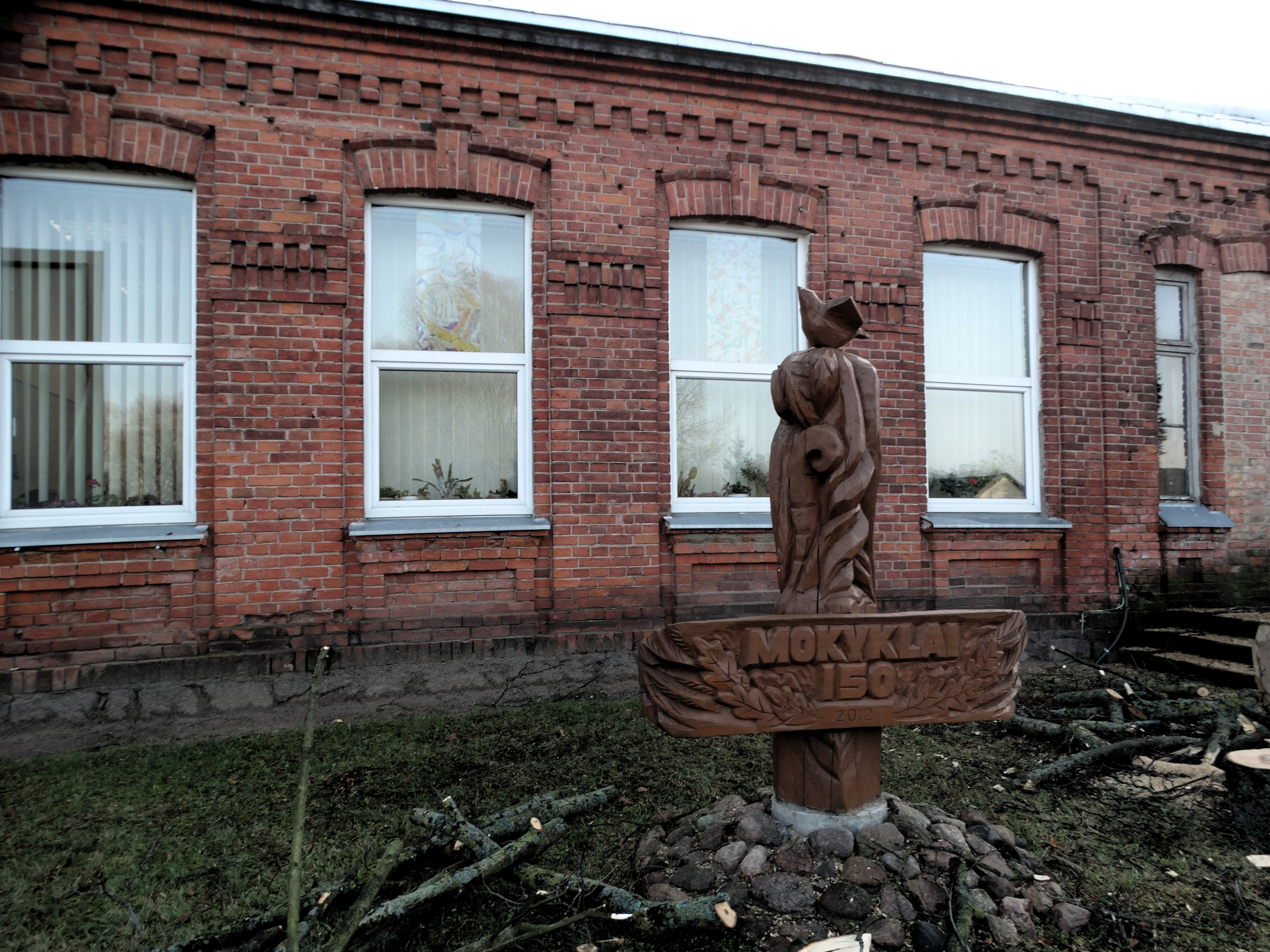 School, Pumpėnai, Pasvalys District, Lithuania